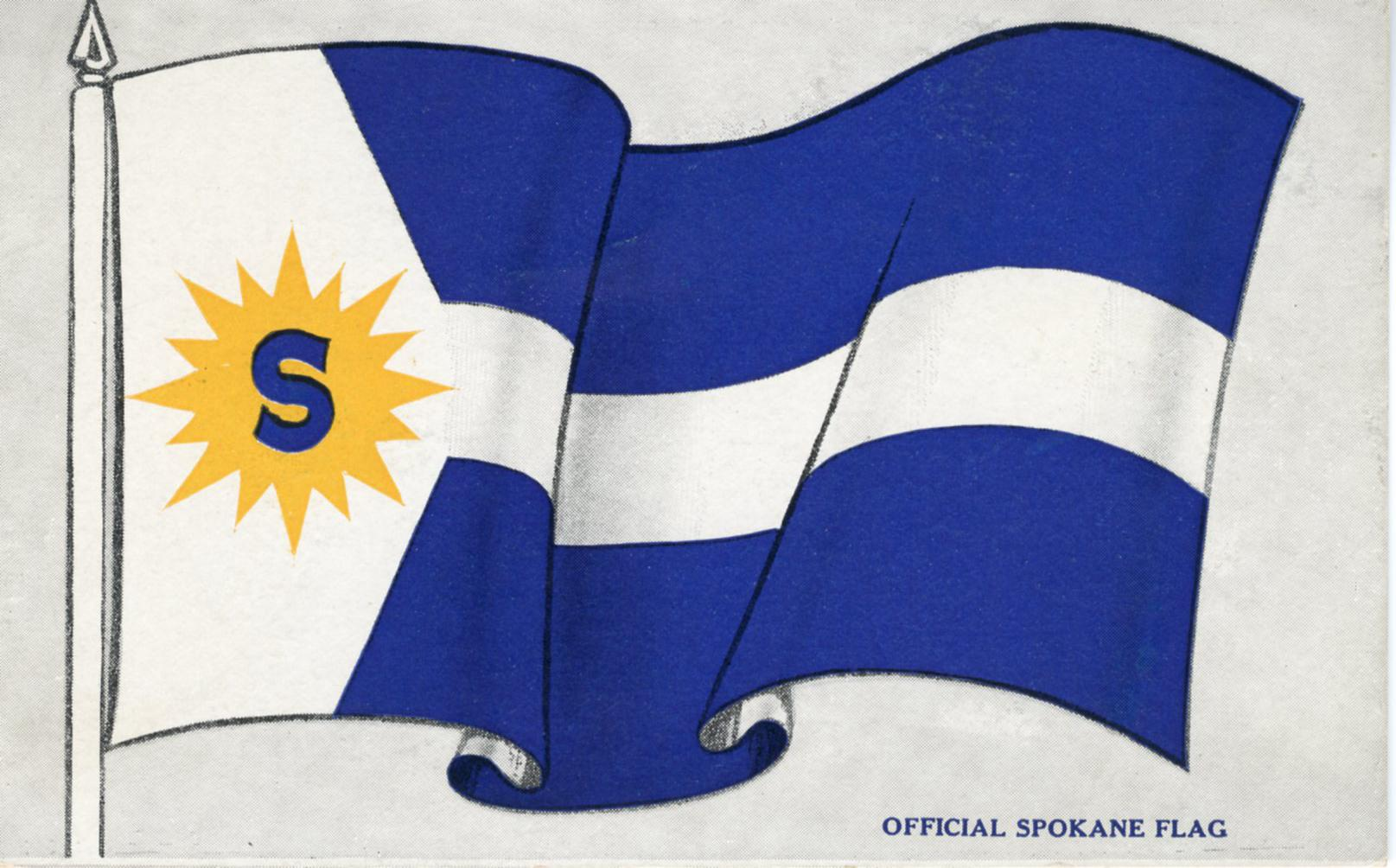 A postcard depicting the former official flag of Spokane, Washington, adopted in 1912. It was originally designed by W. J. Kommers, J. Frank Robbins, and Mrs. Herman Peterson for a contest run by the Spokane Ad Club.